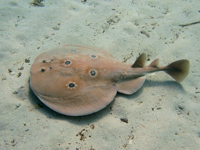 Common torpedo (Torpedo torpedo) off Corsica, France.